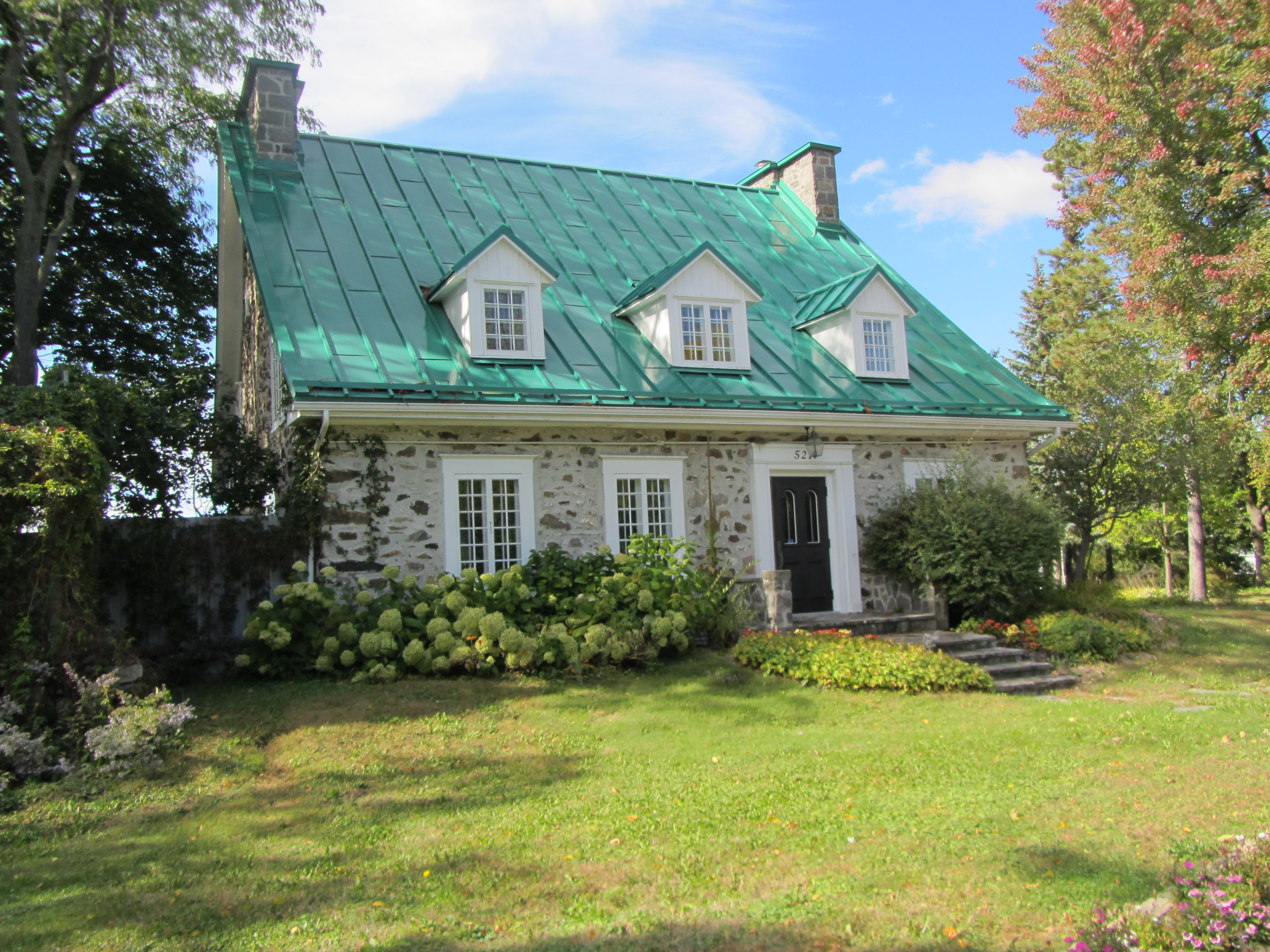 Maison Janotte, 1760, Saint-Marc-Sur-Richlieu, Canada 10 3 2015